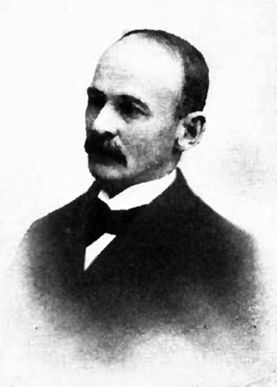 Portrait of William Russell Dudley (1849-1911)